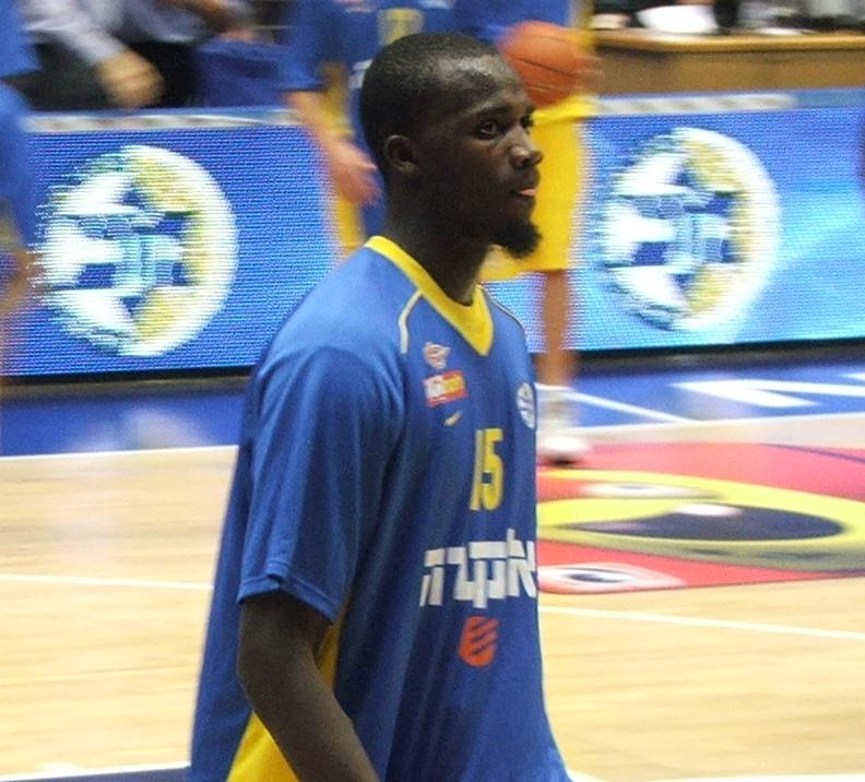 Shawn James, Maccabi Tel Aviv VS. Barak Netanya 31/10/11